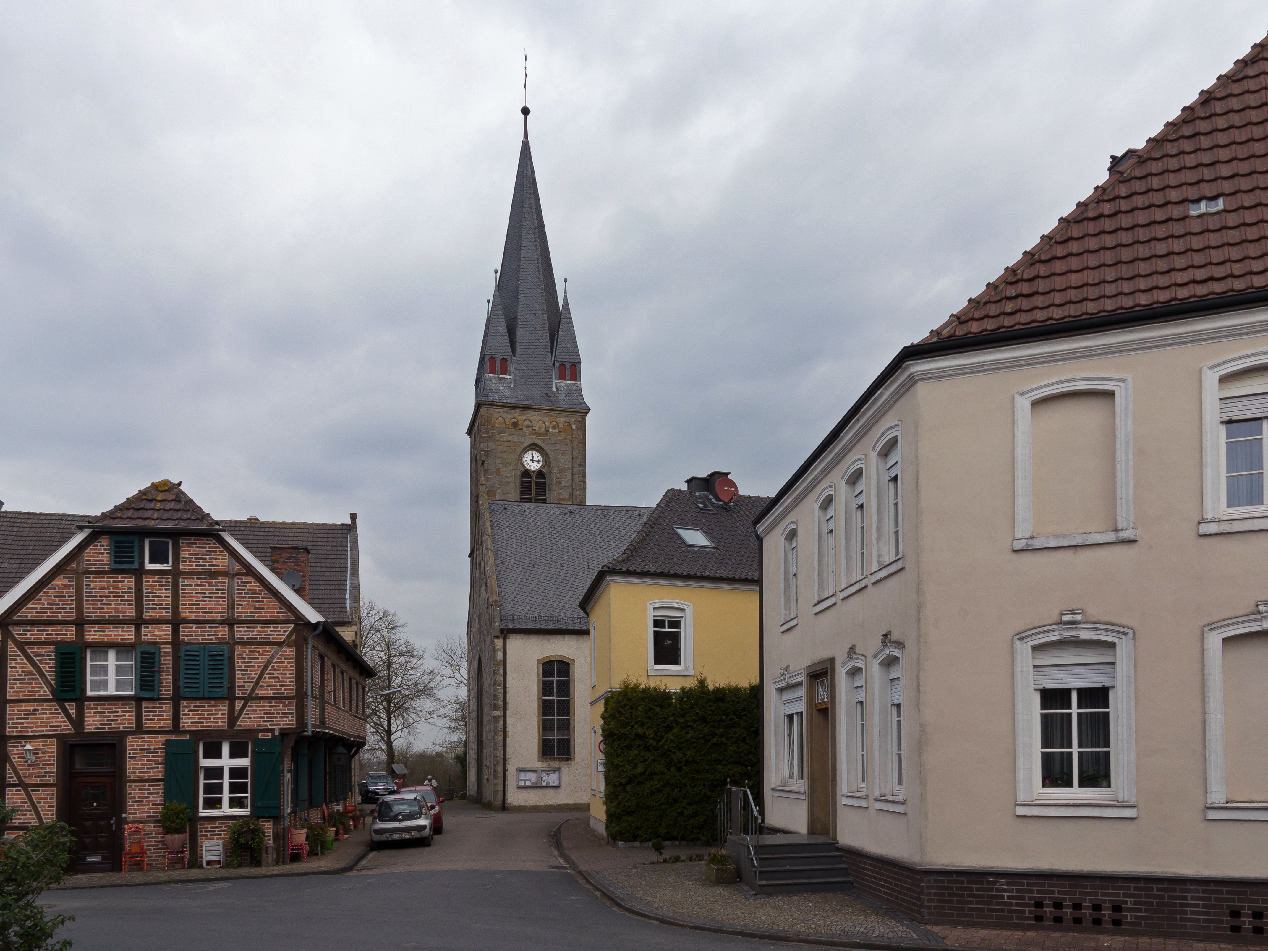 Holthausen, catholic Pfarrkirche Sankt Marien in the streetThis is a photograph of an architectural monument., no. A16